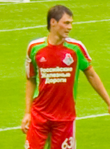 Diniyar Bilyaletdinov